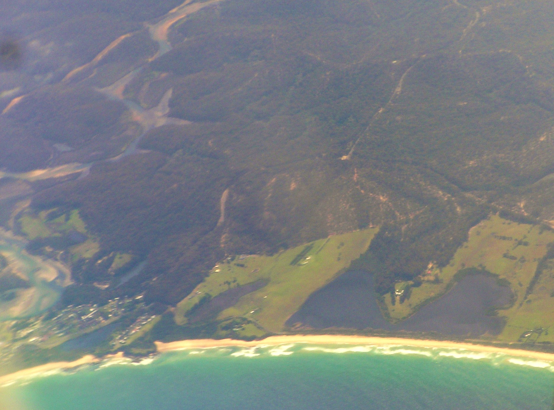 North Bermagui, South Coast, New South Wales Australia aerial photo looking south west